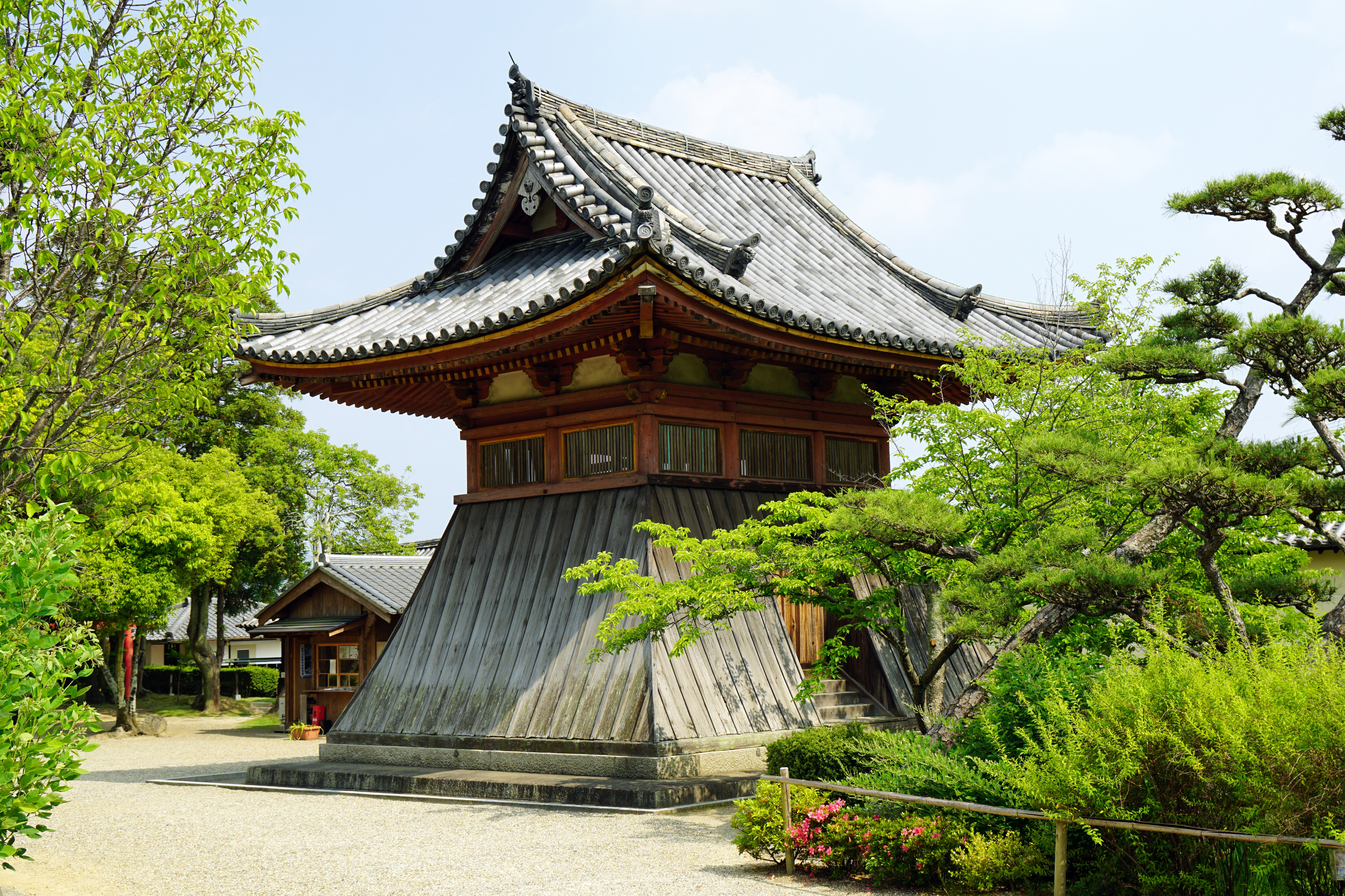 Hokke-ji in Nara, Nara prefecture, Japan.